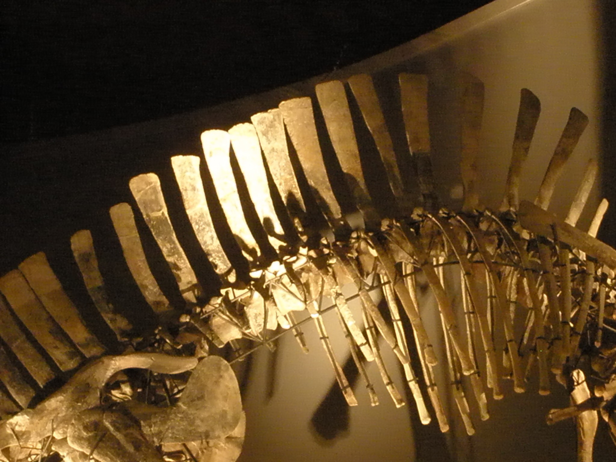 Took the photo at Museo di Storia Naturale di Venezia